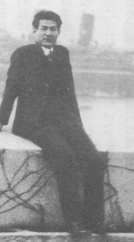 a writer from Japan,荒木十三郎（Juzaburo Araki）